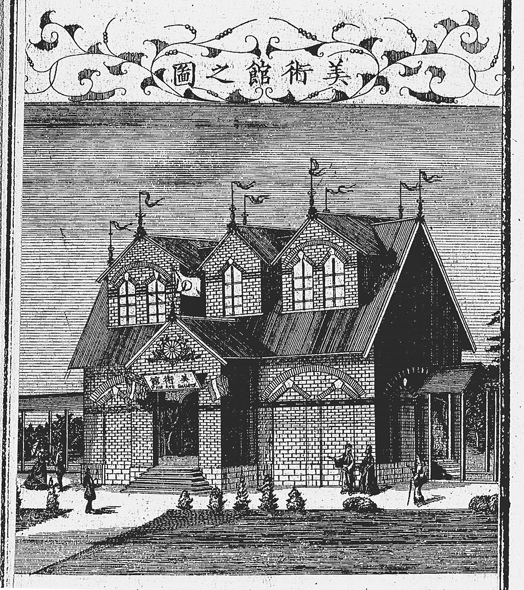 Fine Arts Building by Hayashi Tadayoshi, First National Industrial Exhibition, Ueno Park, Tokyo, Japan (since demolished)